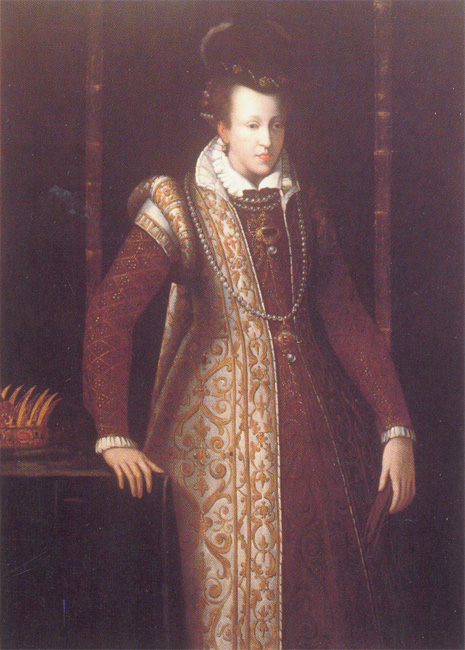 Portrait of Joanna of Austria (1547-1578) while Grand Duchess of Tuscany with grand ducal crown after Giovanni Bizzelli